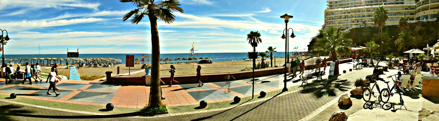 Torremolinos beach, Bajondillo area, November 2013. Sunny winter afternoon, across from El Gato Lounge restaurant